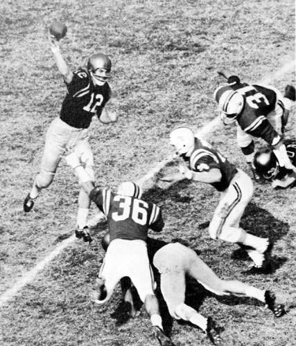 Navy quarterback, Roger Staubach (#12), attempts a forward pass as Maryland defenders close in.